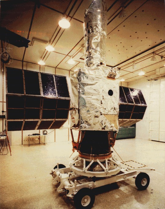 International Ultraviolet Explorer is shown fully assembled in a clean room at Goddard Space Flight Center, prior to shipment to Cape Canaveral for launch.